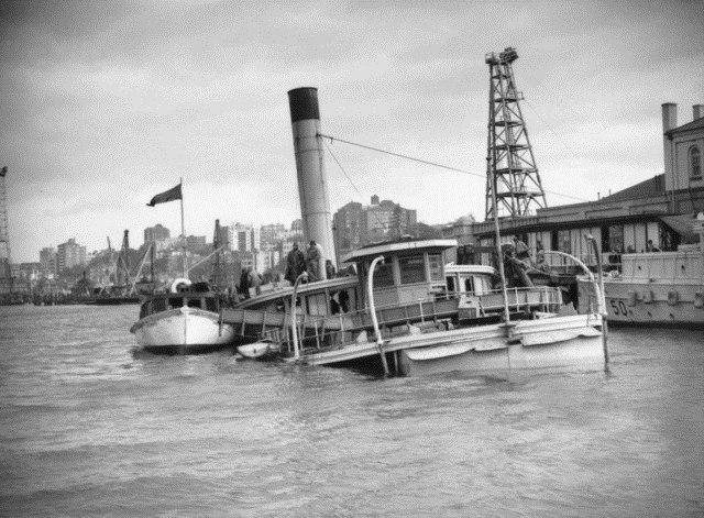 AWM Caption: SYDNEY HARBOUR, 1942-06. THE NAVAL DEPOT SHIP KUTTABUL WHICH WAS DAMAGED BY A JAPANESE TORPEDO DURING THE RAID ON SYDNEY HARBOUR BY JAPANESE MIDGET SUBMARINES ON 1942-05-31.